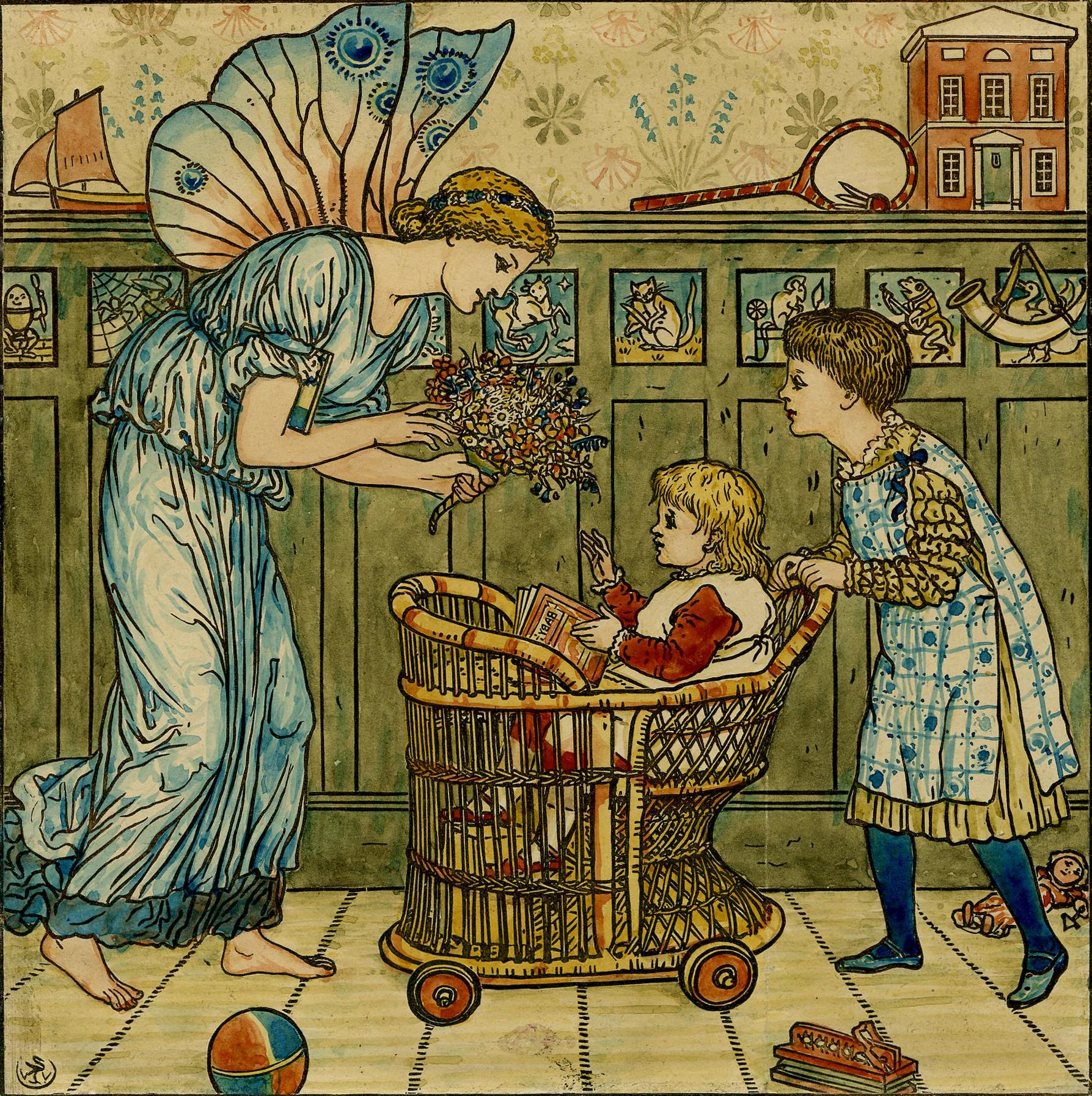 Walter Crane's painting of the frontispiece for Baby's Bouquet: A fairy gives a bouquet of flowers to a child in a pram pushed by a girl.